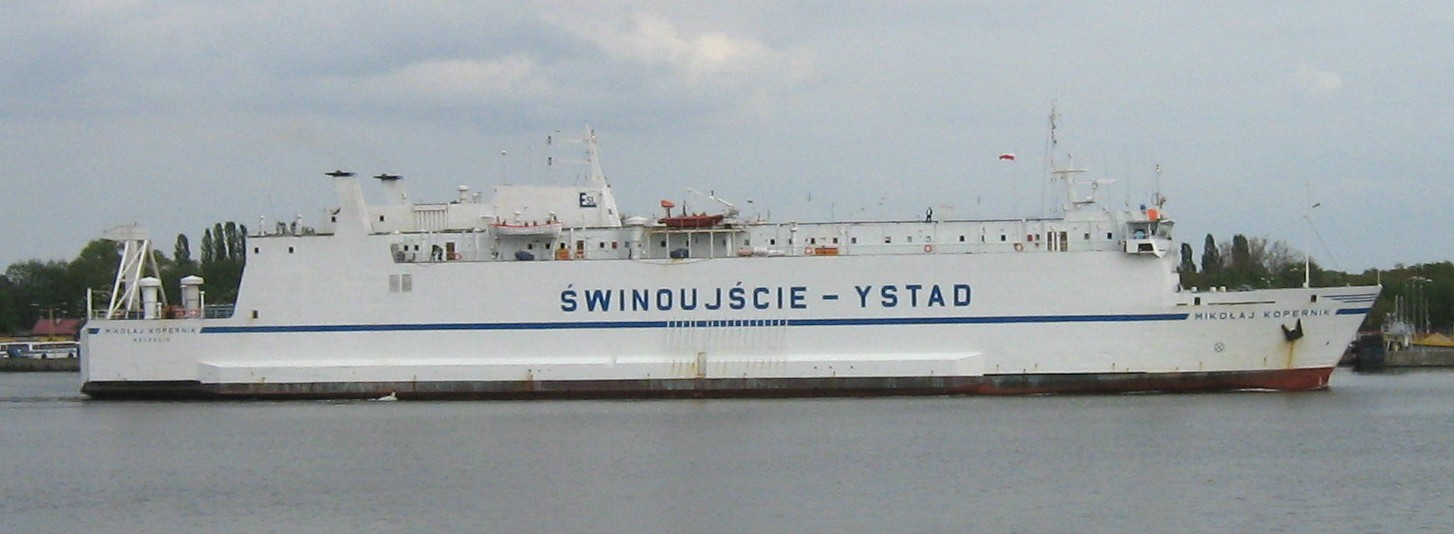 Ferry "MF Mikołaj Kopernik", named after the Polish spelling of the astronomer Nicolaus Copernicus, going across the Baltic Sea between Świnoujście in Poland and Ystad in Sweden.